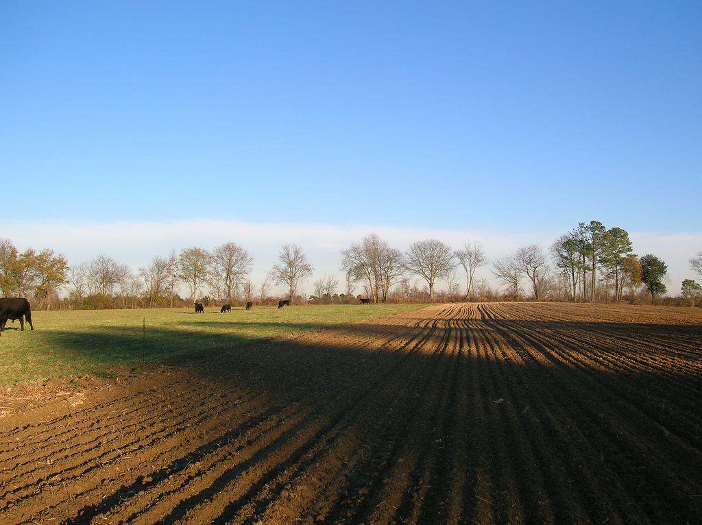 Farmland somewhere in North Carolina